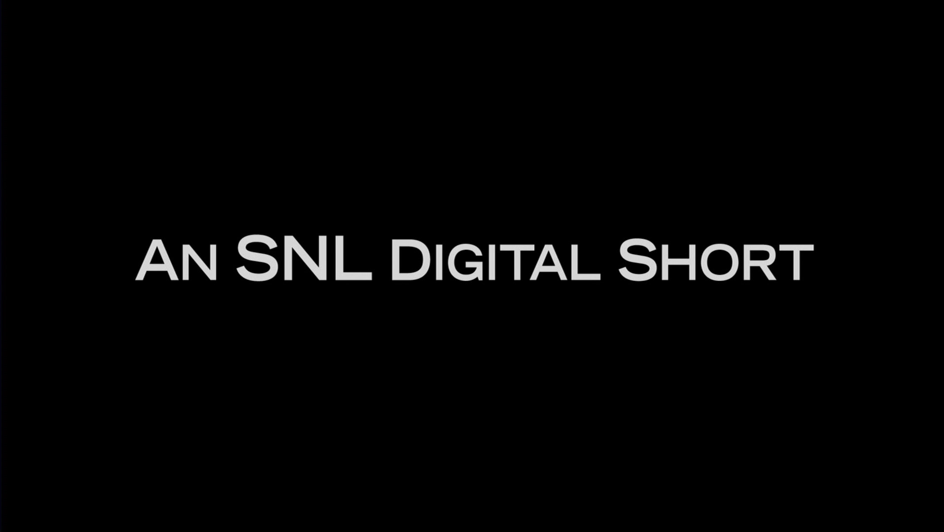 The title shot for used for SNL Digital Shorts. Taken from the HDTV raw stream.